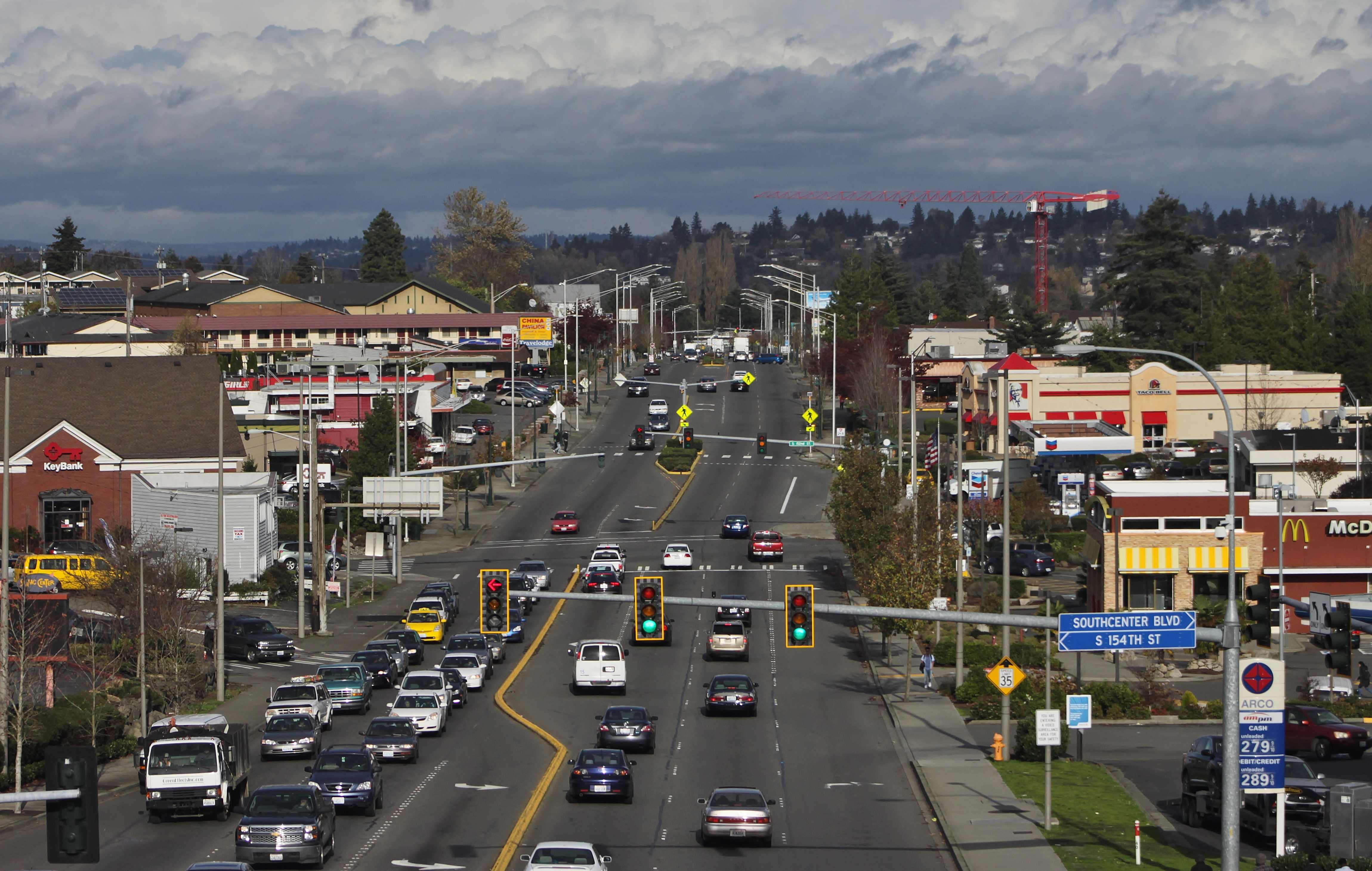 Overhead view of International Boulevard (formerly Washington State Route 99 in Tukwila, Washington, seen looking north from the Link light rail station